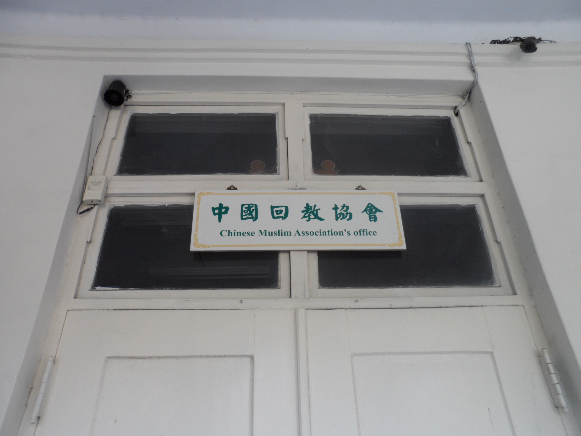 Office of the Chinese Muslim Association at Taipei Grand Mosque, Daan District, Taipei, Taiwan